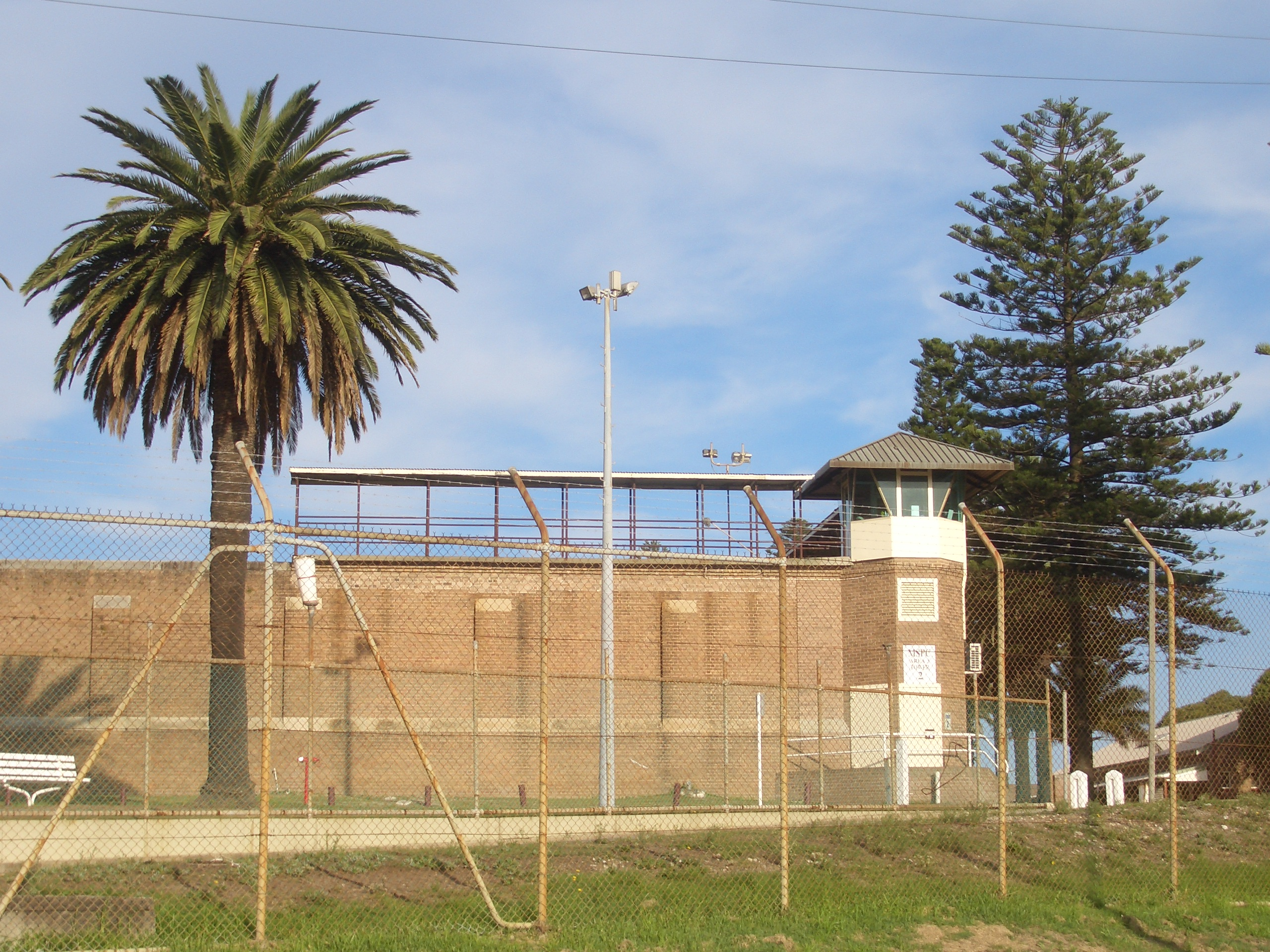 Long Bay Correctional Centre, Anzac Parade